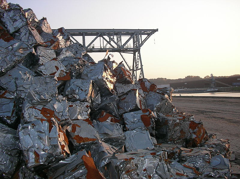 Compacted scraps pile in one of the yards of Central European Waste Management, Austria